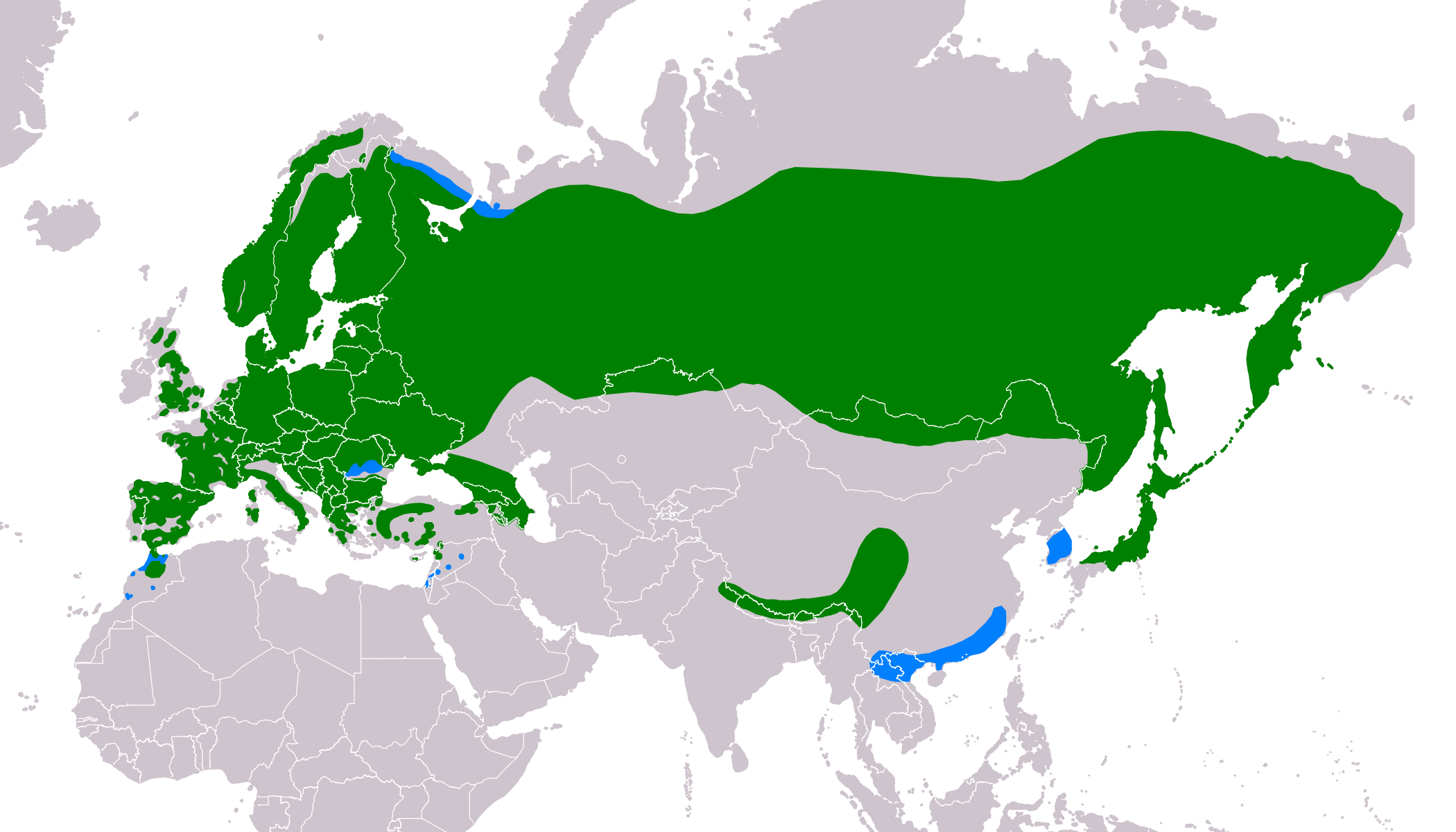 Distribution map of northern goshawk (Accipiter gentilis) according to IUCN version 2018.2 (map 2016.3), Legend: Extant, resident (#008000), Extant, non-breeding (#007FFF)